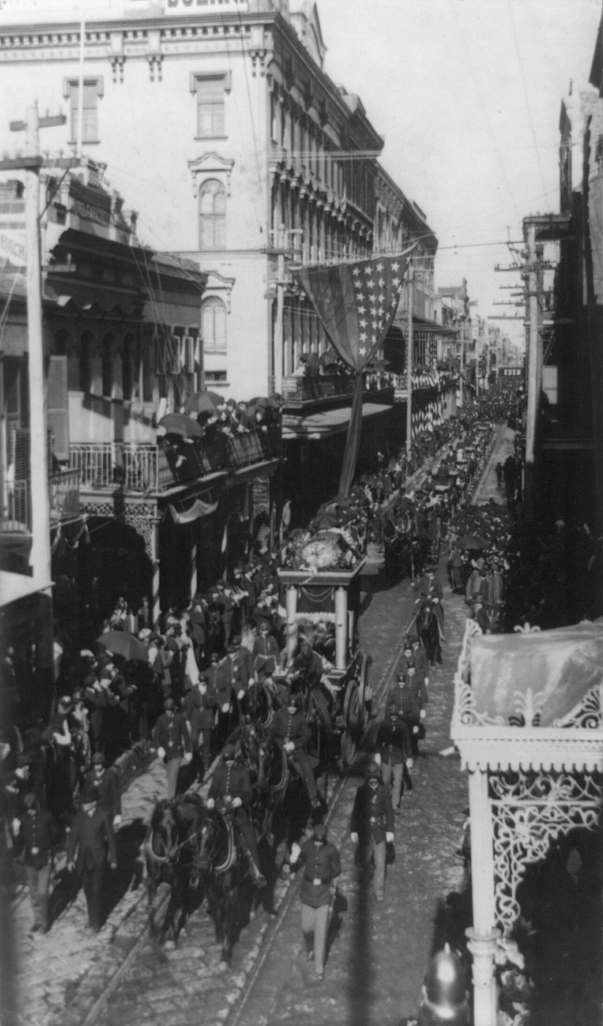 "Jefferson Davis, 1808-1889--Funeral. Body in horse-drawn wagon on street in New Orleans, La." Depicts funeral procession 11 December 1889 after Jefferson lied in state at City Hall and the corpse was moved with ceremony to Metairie Cemetery.